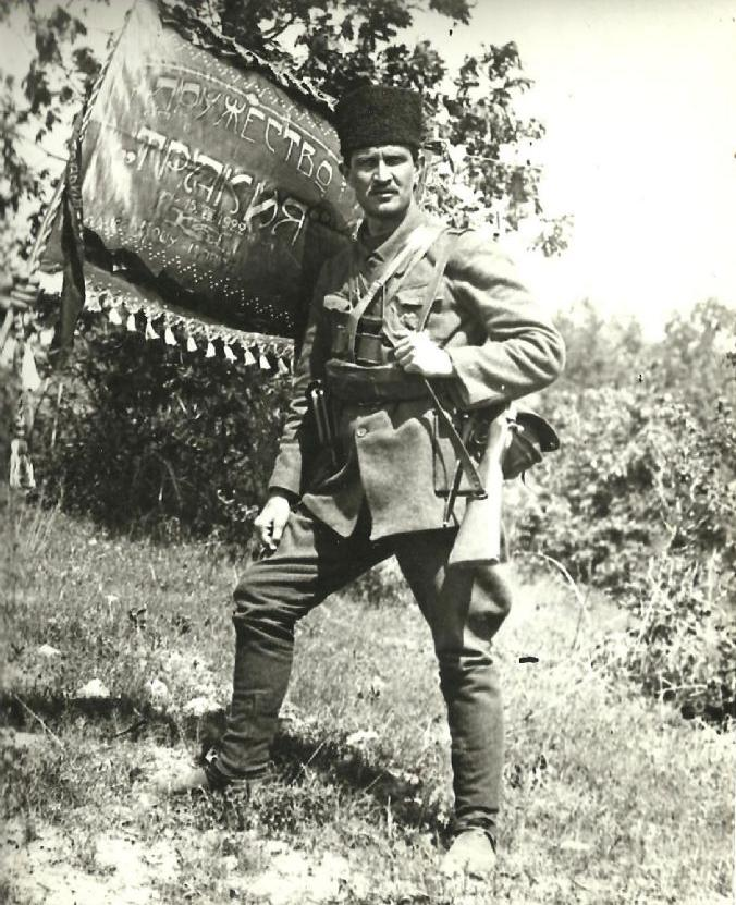 Komitadji Fuat (Balkan)